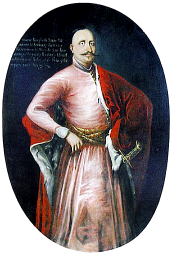 Portrait of Janusz Wiśniowiecki (1598-1636)